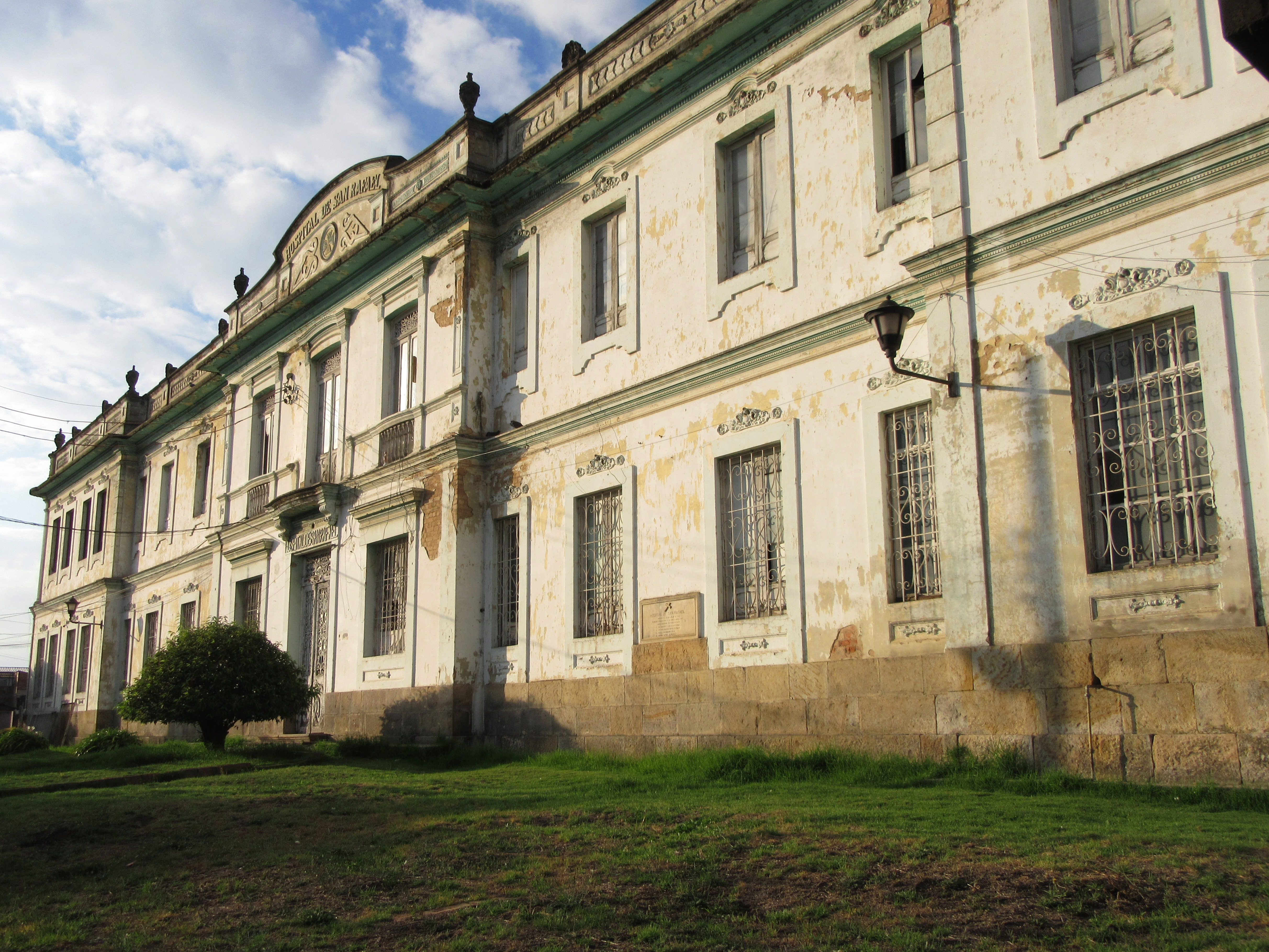 Hospital de San Rafael Facatativá - Cundinamarca